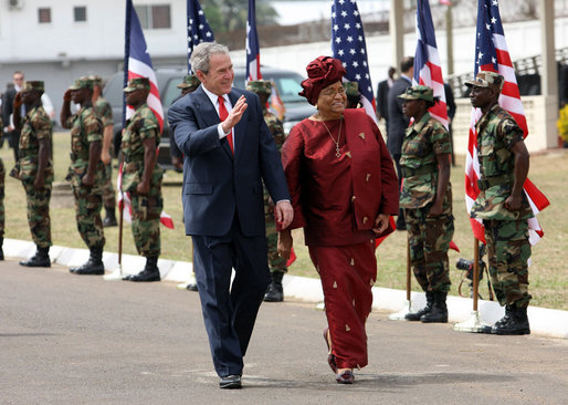 President George W. Bush and President Ellen Johnson-Sirleaf of Liberia pass an honor guard Thursday, Feb. 21, 2008, during the President's visit to Monrovia, Liberia.